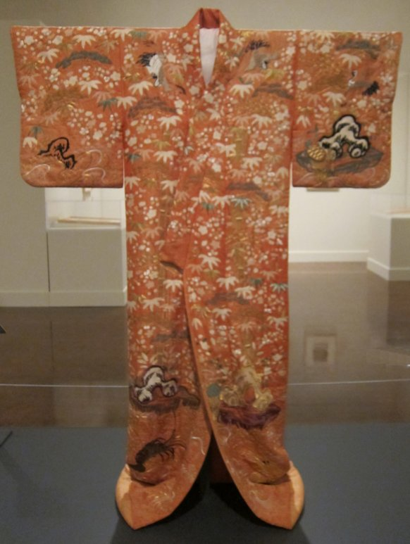 Bridal outer robe (uchikake) from Japan, early 18th century, silk, gilt-paper wrapped threads, damask weave, yūzen (paste resist, hand painted) stencil-printed embroidery, Honolulu Museum of Art